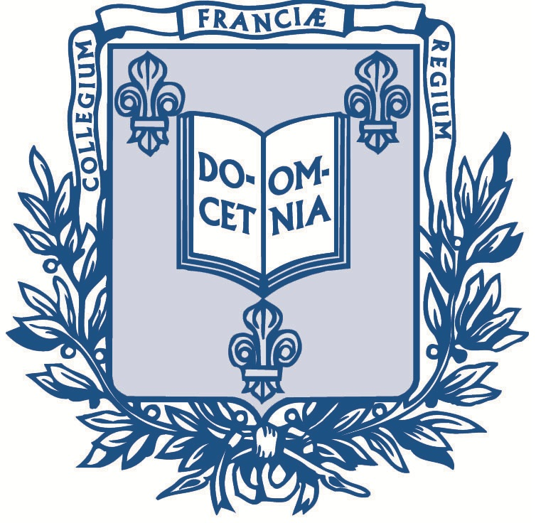 Logo of the Collège de France